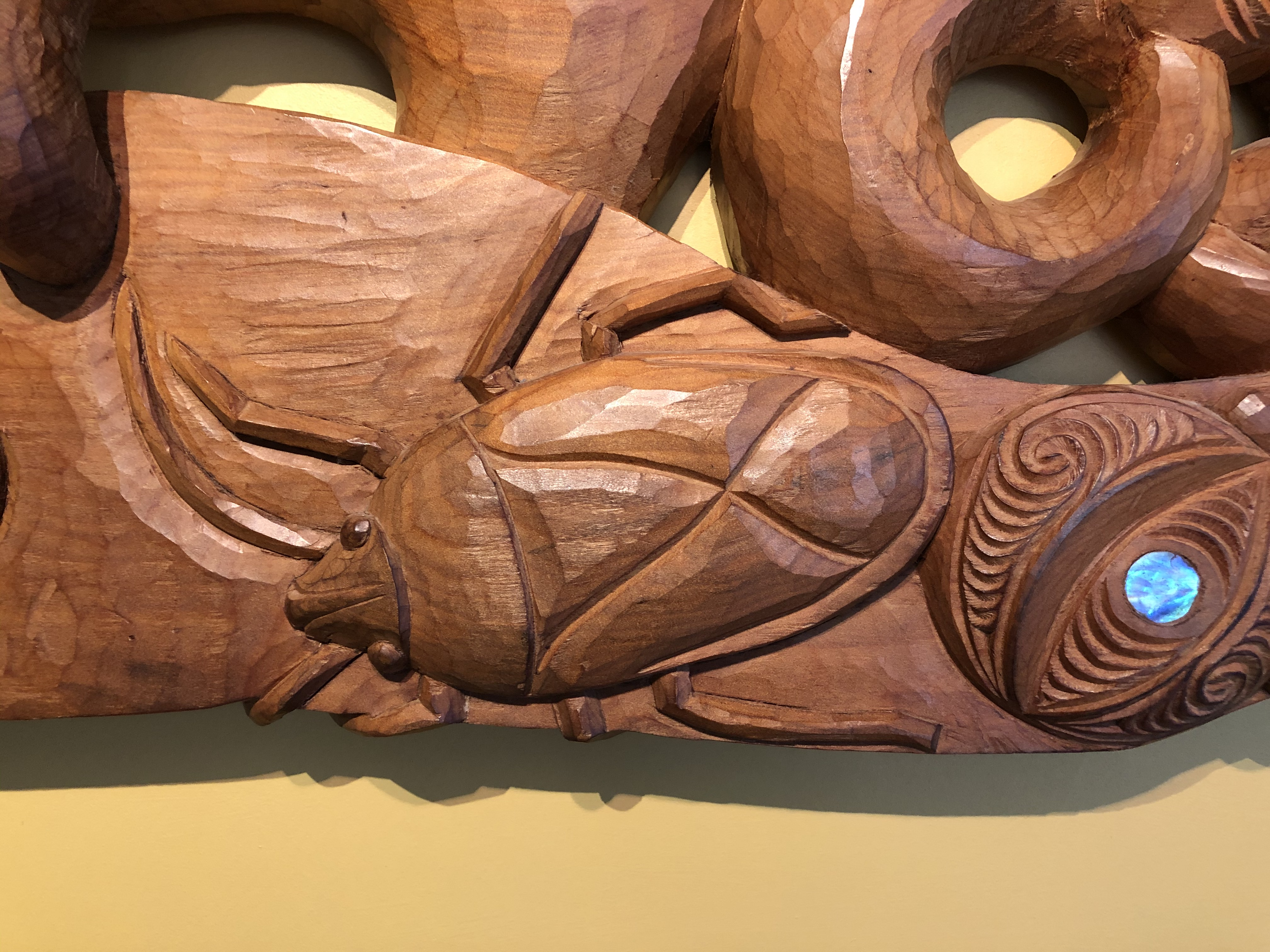 New Zealand Shield Bug carved by Denis Conway onto a Maori pare, on display at the New Zealand Arthropod Collection at Landcare Research, Auckland.